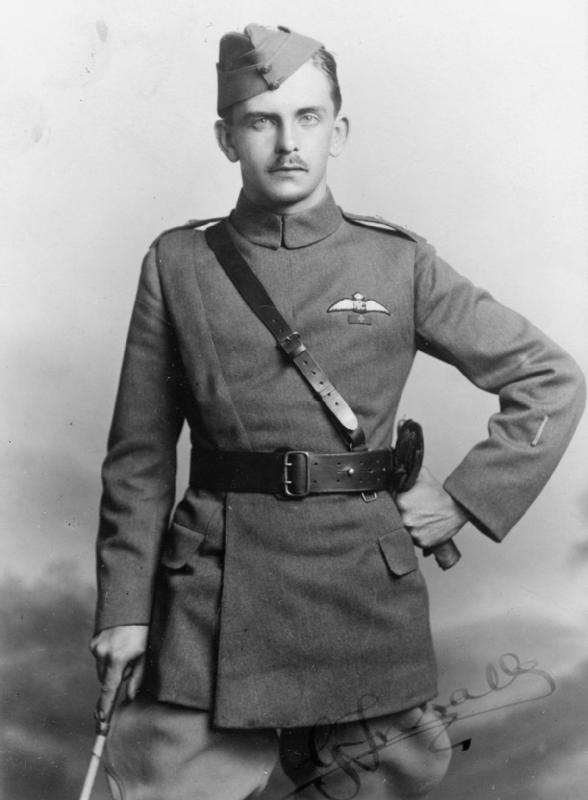 Photograph of Gilbert Stuart Martin Insall, Royal Flying Corps, British World War I Victoria Cross recipient.